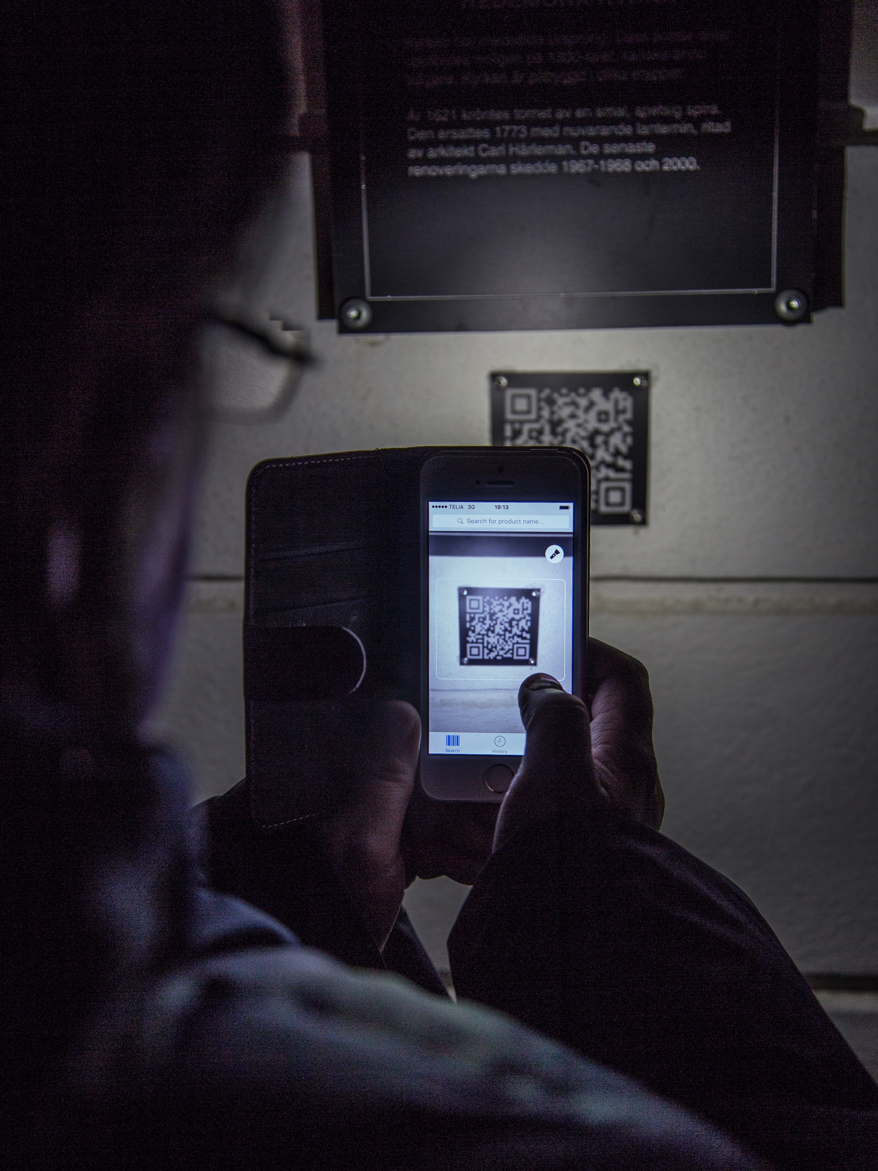 Scanning of QRpedia code at tourist information "Kulturpromenad Hedemora" at Hedemora kyrka (Hedemora Church), Hedemora, Dalarna County, Sweden.